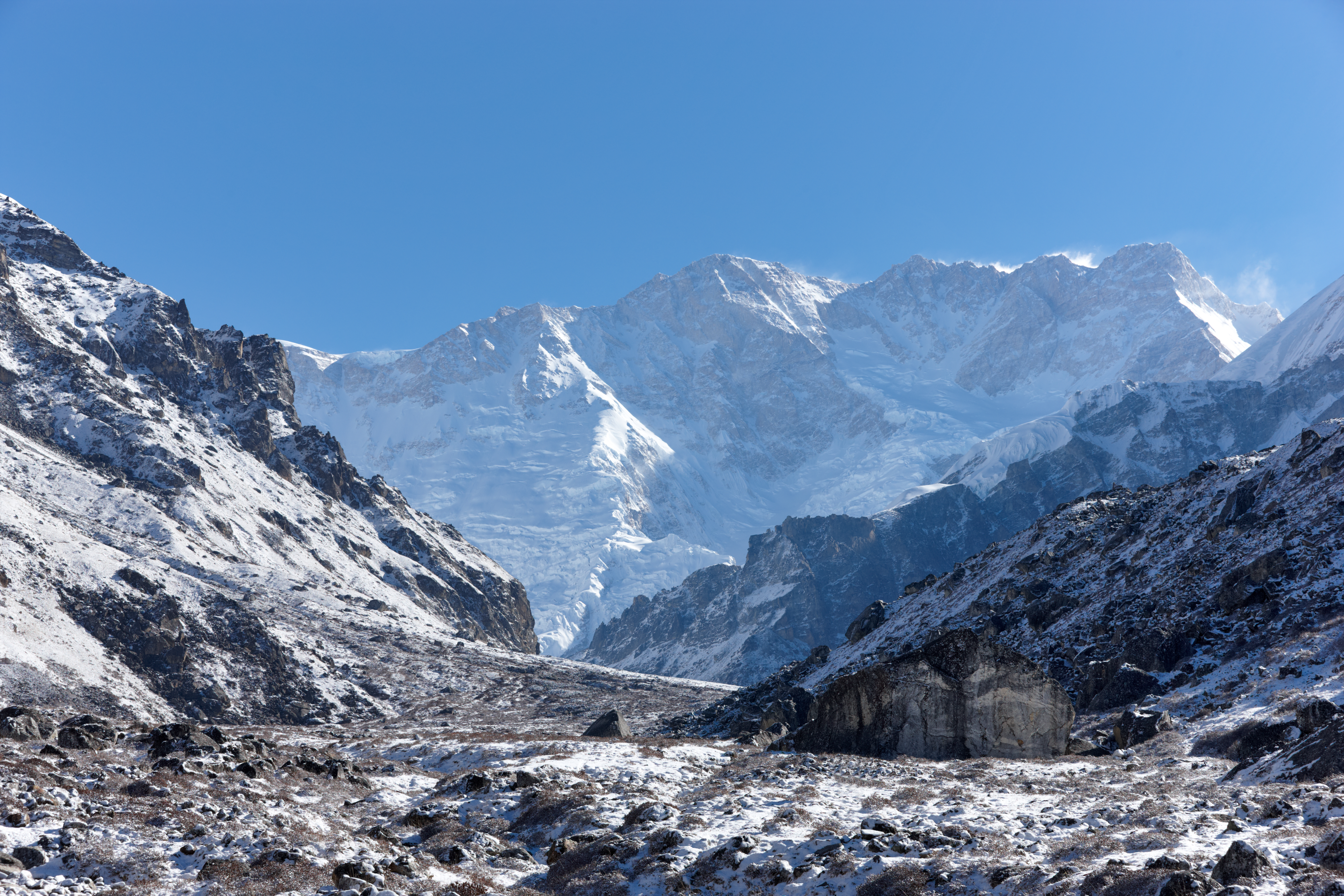 Kanchenjunga mount